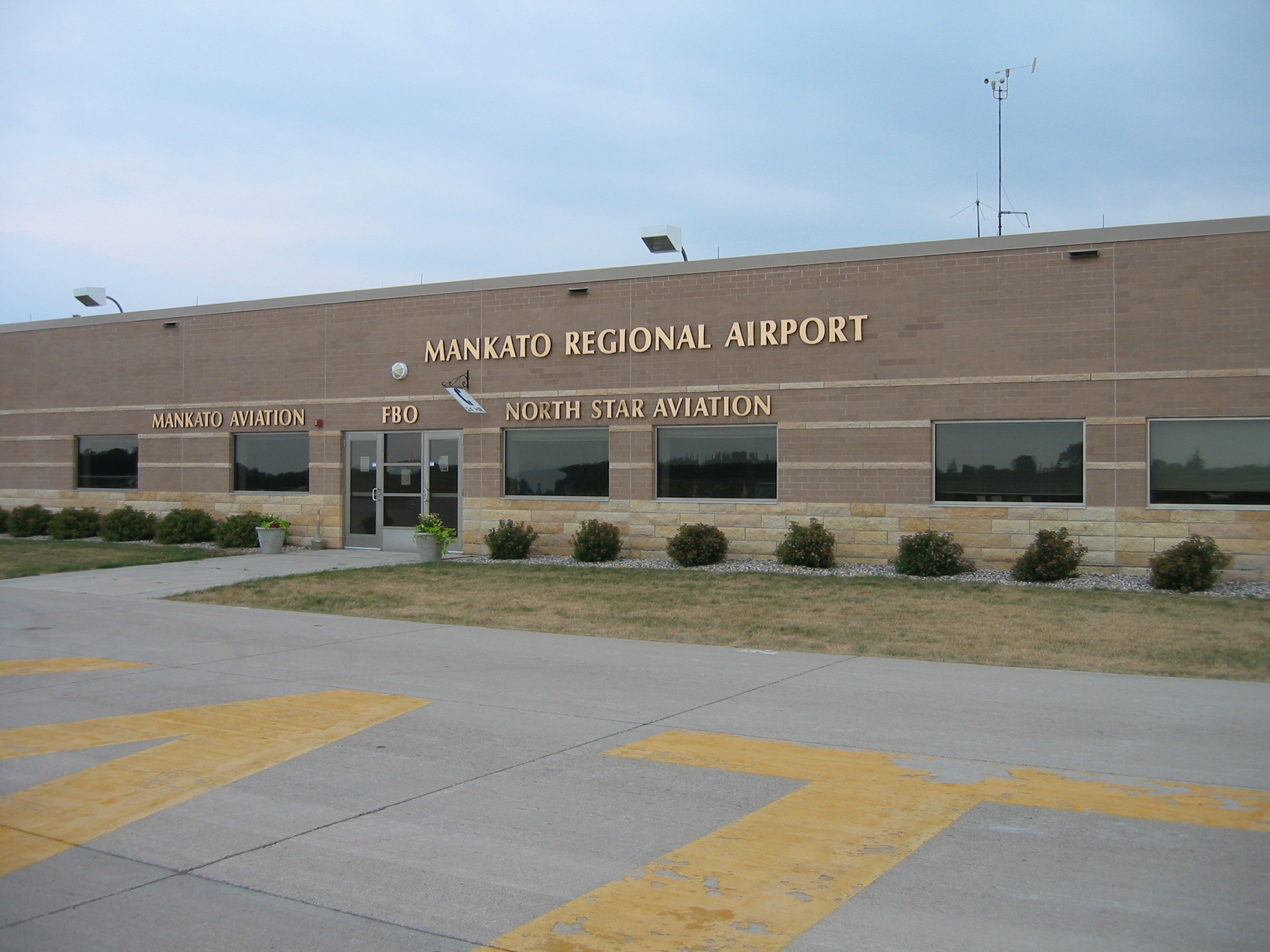 Mankato Regional Airport, in Mankato, Minnesota United States.